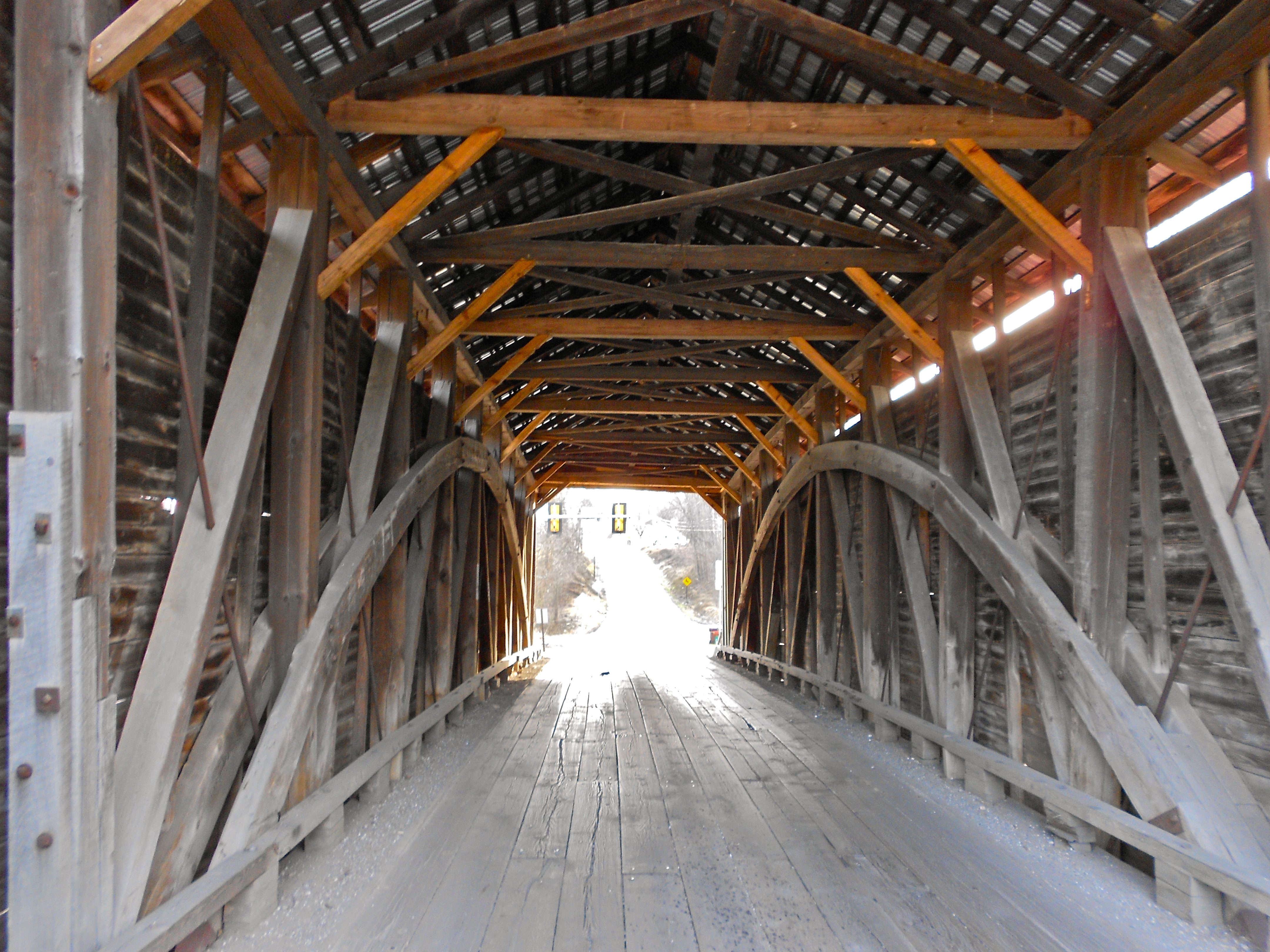 Jacks Mountain Covered Bridge on the NRHP since August 25, 1980. Southwest of Fairfield on Legislative Route 01053, near Iron Springs in Carroll Valley and Hamiltonban Township, Adams County, Pennsylvania